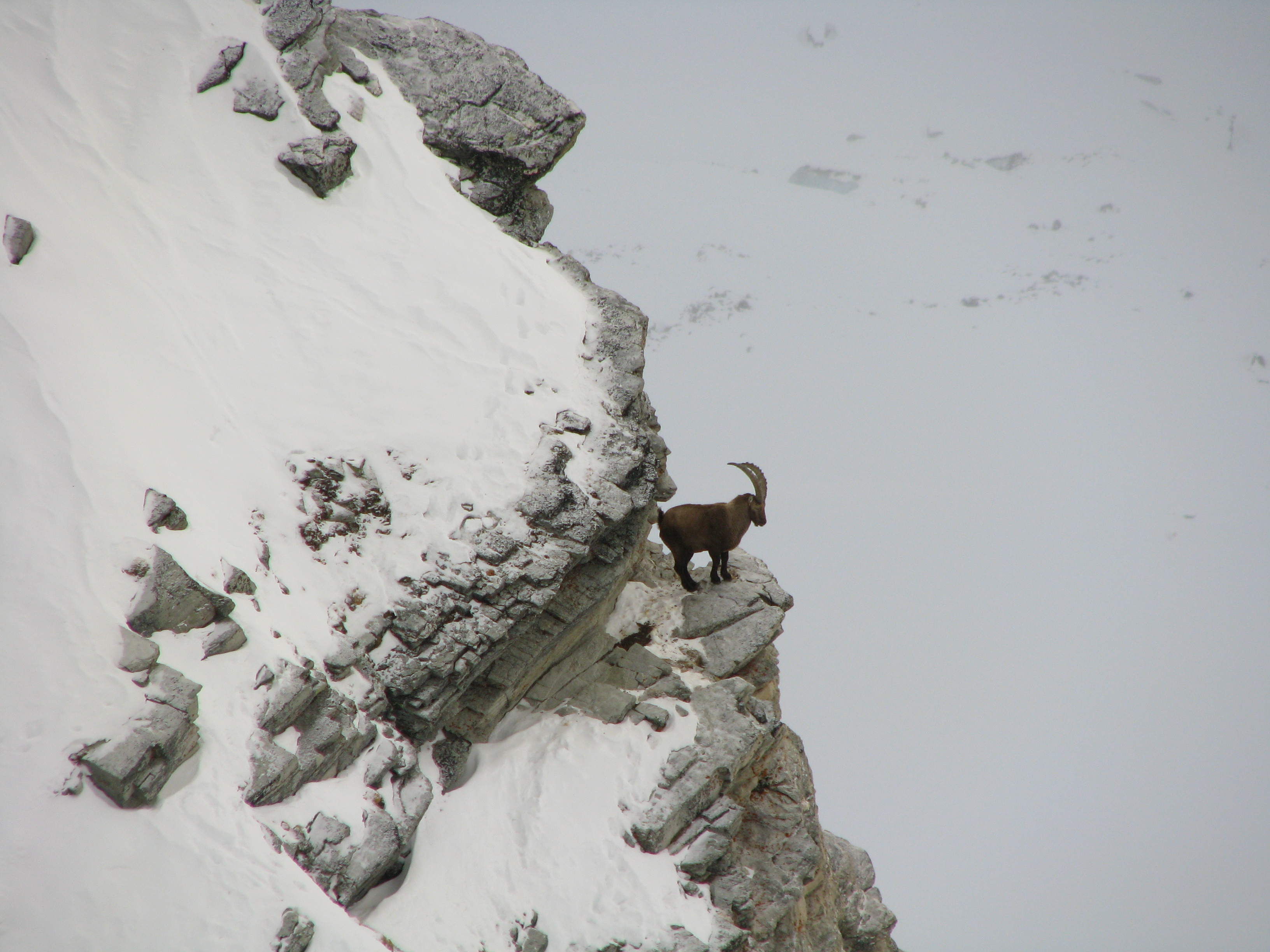 Alpine Ibex (capra Ibex) widespread in different regions of Alps. Photo was taken near Zermatt. In Gornergrat.